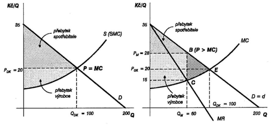 Allocation efficiency in a graph